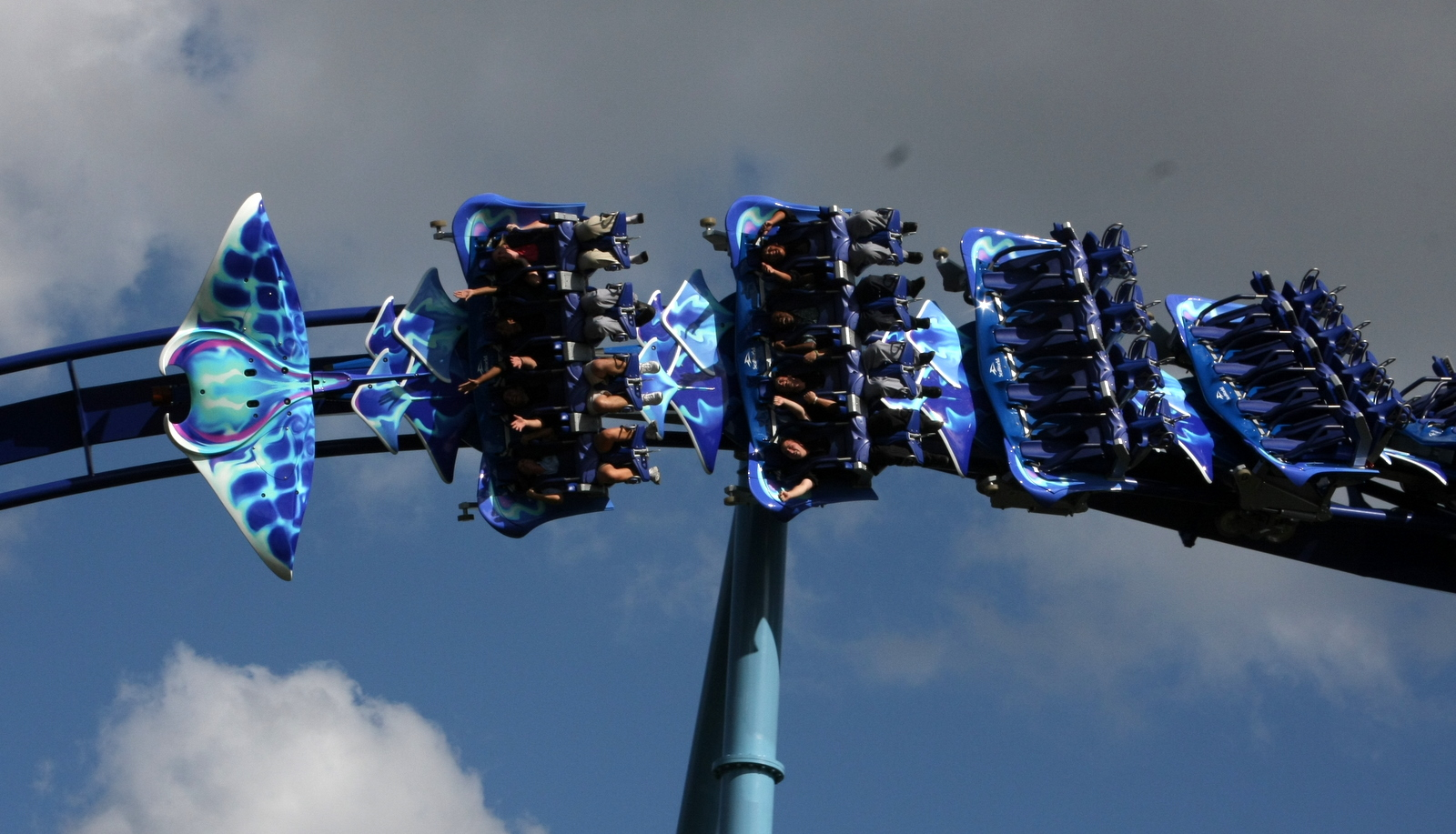 Manta at SeaWorld in Orlando during employee soft opening